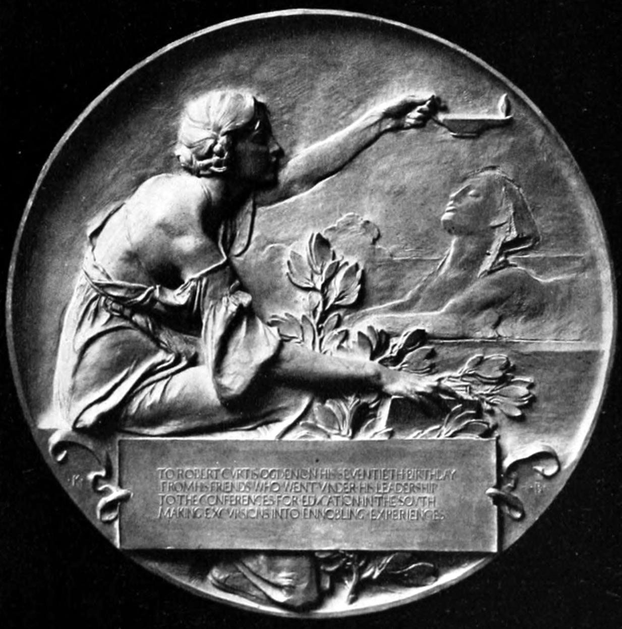 Testimonial tablet to Robert Curtis Ogden, said to be in New York City.